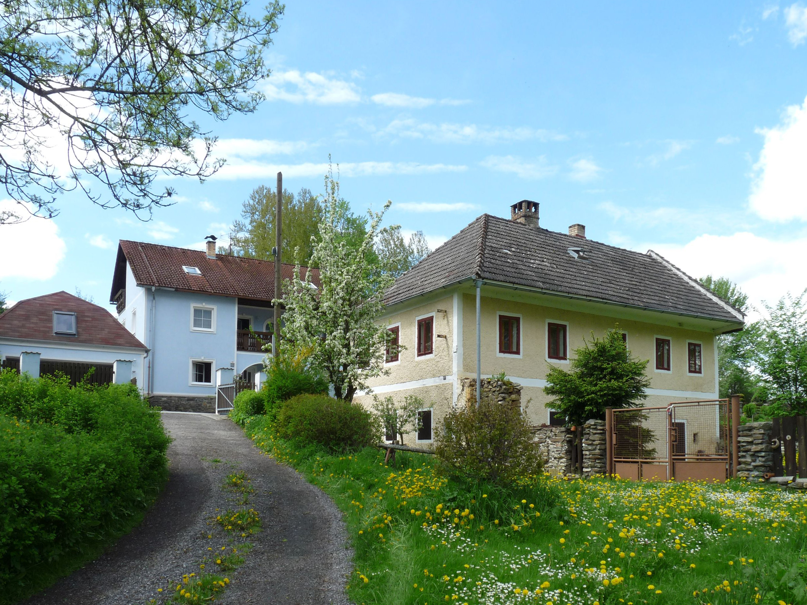 Houses No 22 and 23 in the village of Mezipotočí in Český Krumlov District, South Bohemian Region, Czech Republic.